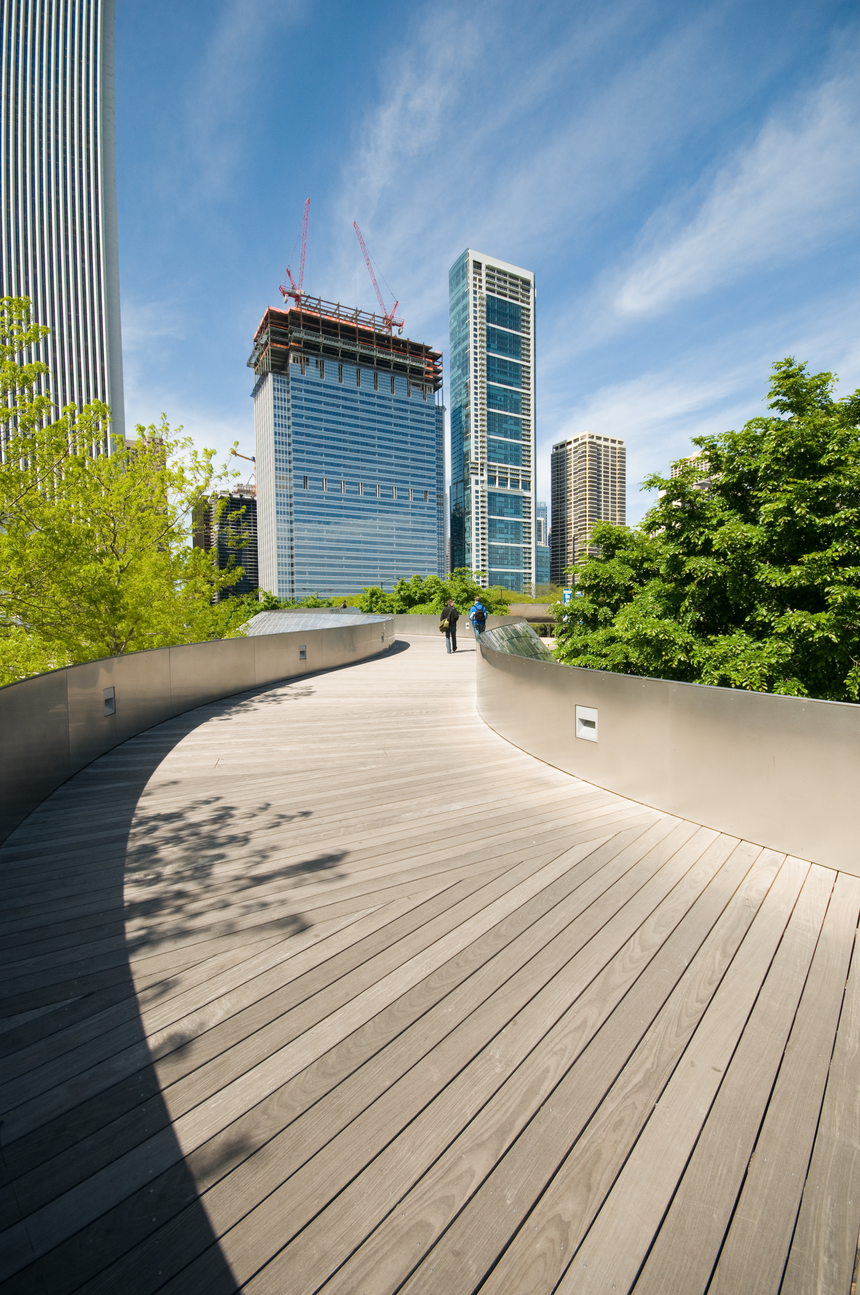 BP Pedestrian Bridge in Millennium Park in Chicago, Illinois, USA. The bridge has Brazillian hardwood floor boards and is clad with stainless steel plates. The Aon Center building is visible in the background at left.